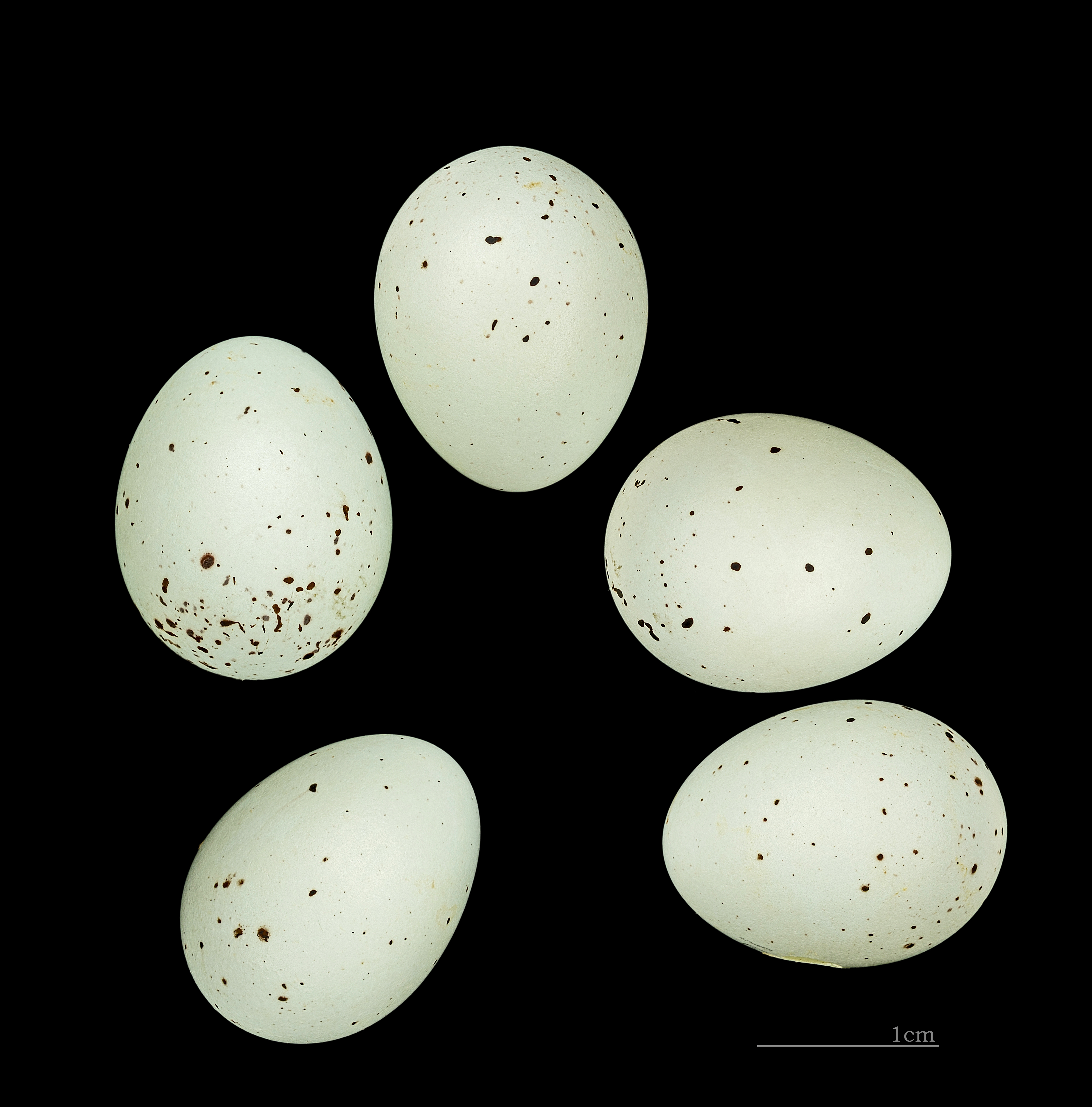 Egg of Trumpeter Finch Collection of René de Naurois / Jacques Perrin de Brichambaut.